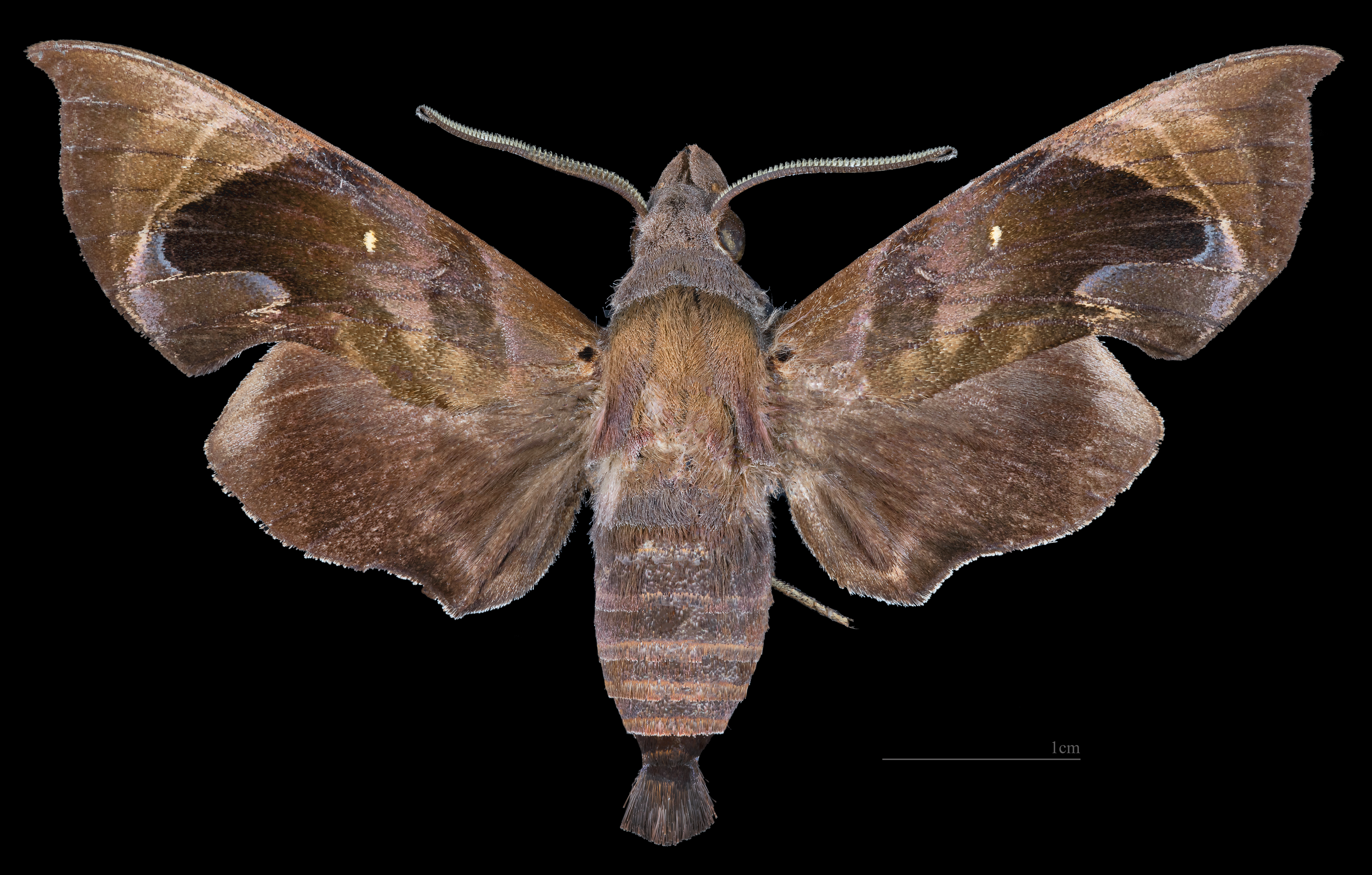 Eurypteryx obtruncata - Dorsal side Collection of the Mathematician Laurent Schwartz